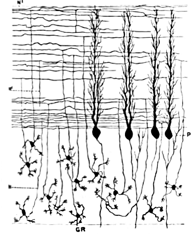 Section through the cerebellar cortex, parallel to the long axis of a folium. This image is figure 514 (p. 579) of Cunningham's Textbook of anatomy, by Daniel John Cunningham, published in 1913 by William Wood.